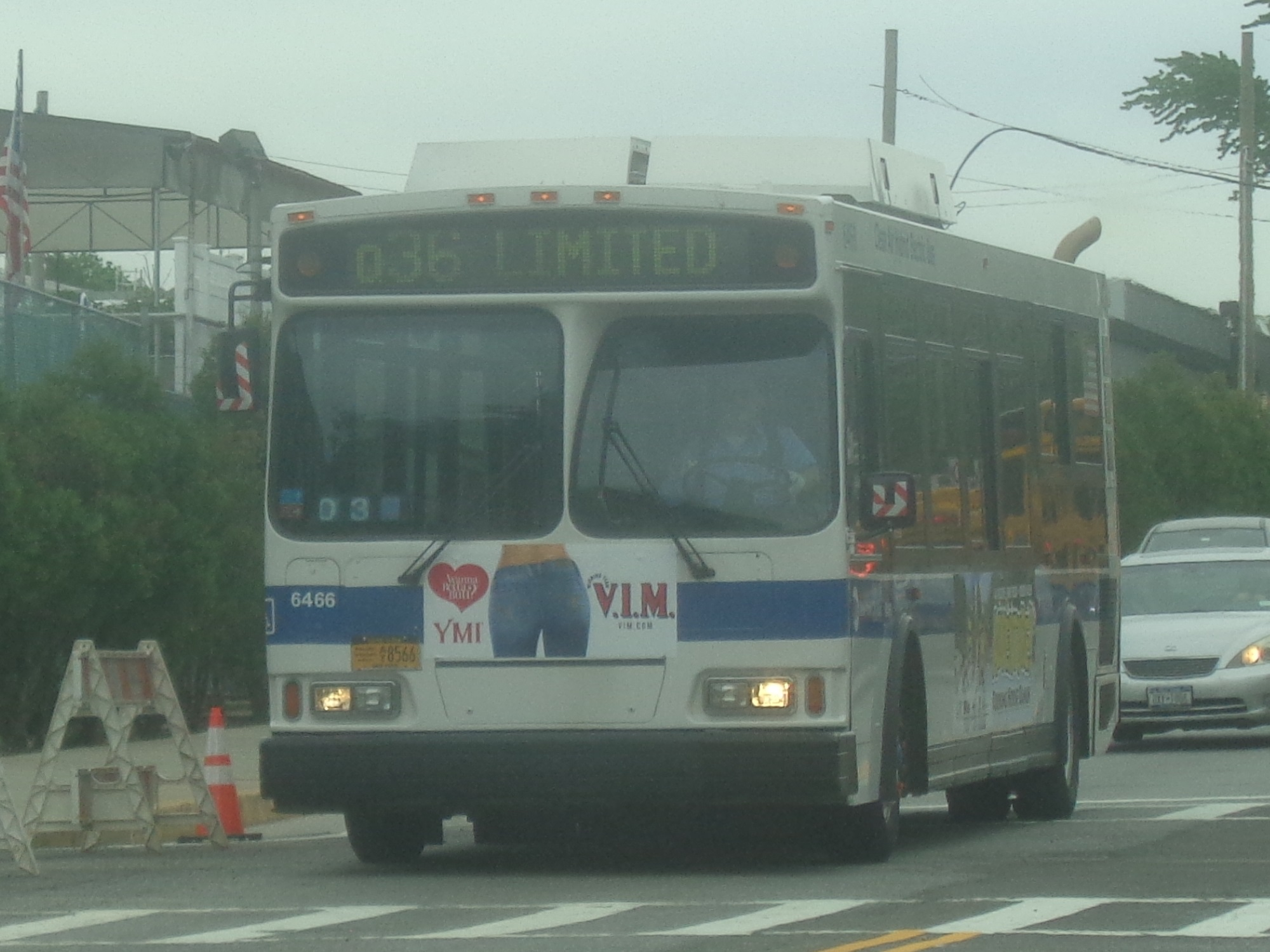 A Little Neck LIRR station-bound Q36 Limited bus at Little Neck Parkway and 58th Avenue in Little Neck, Queens.